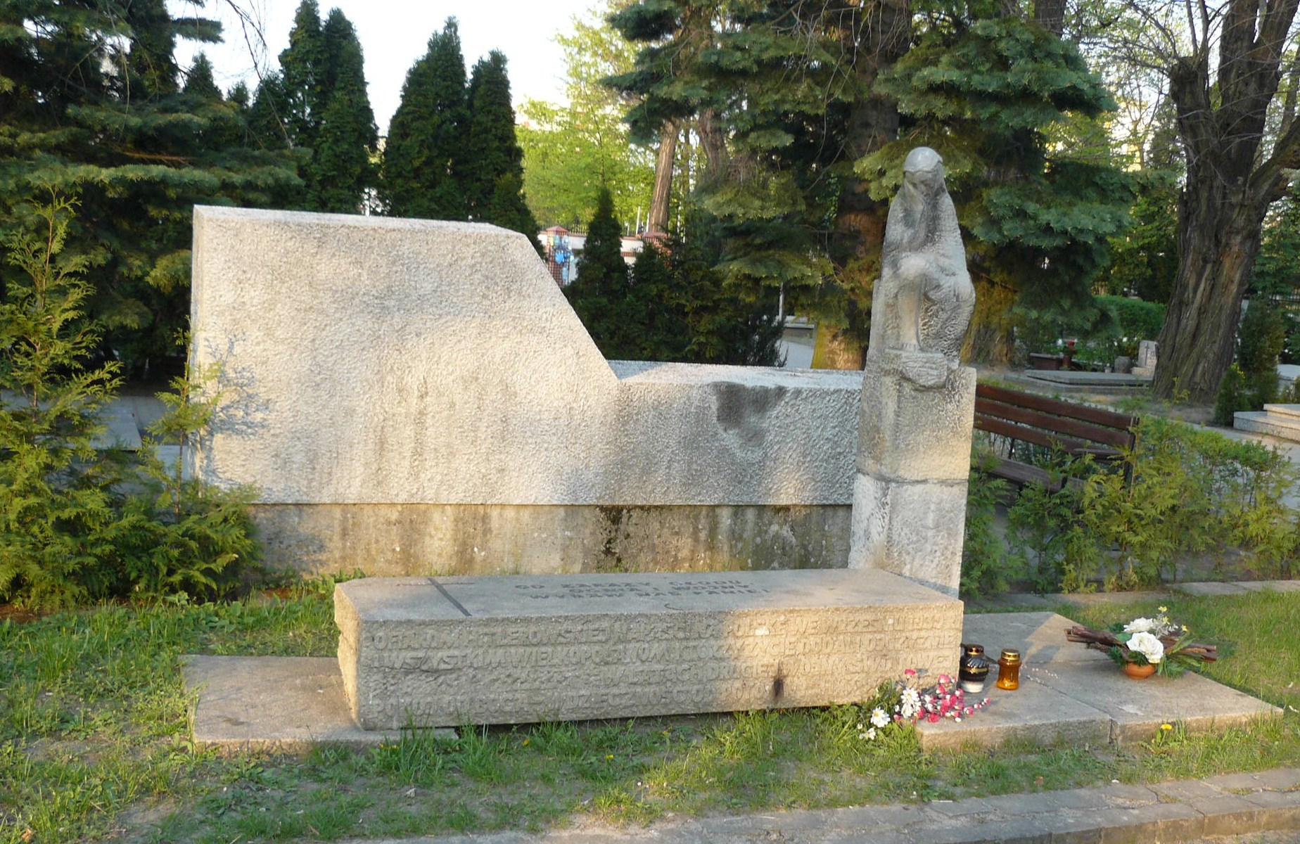 Monument 1939-1945 - Poznan, Gorczyn Cemetery.